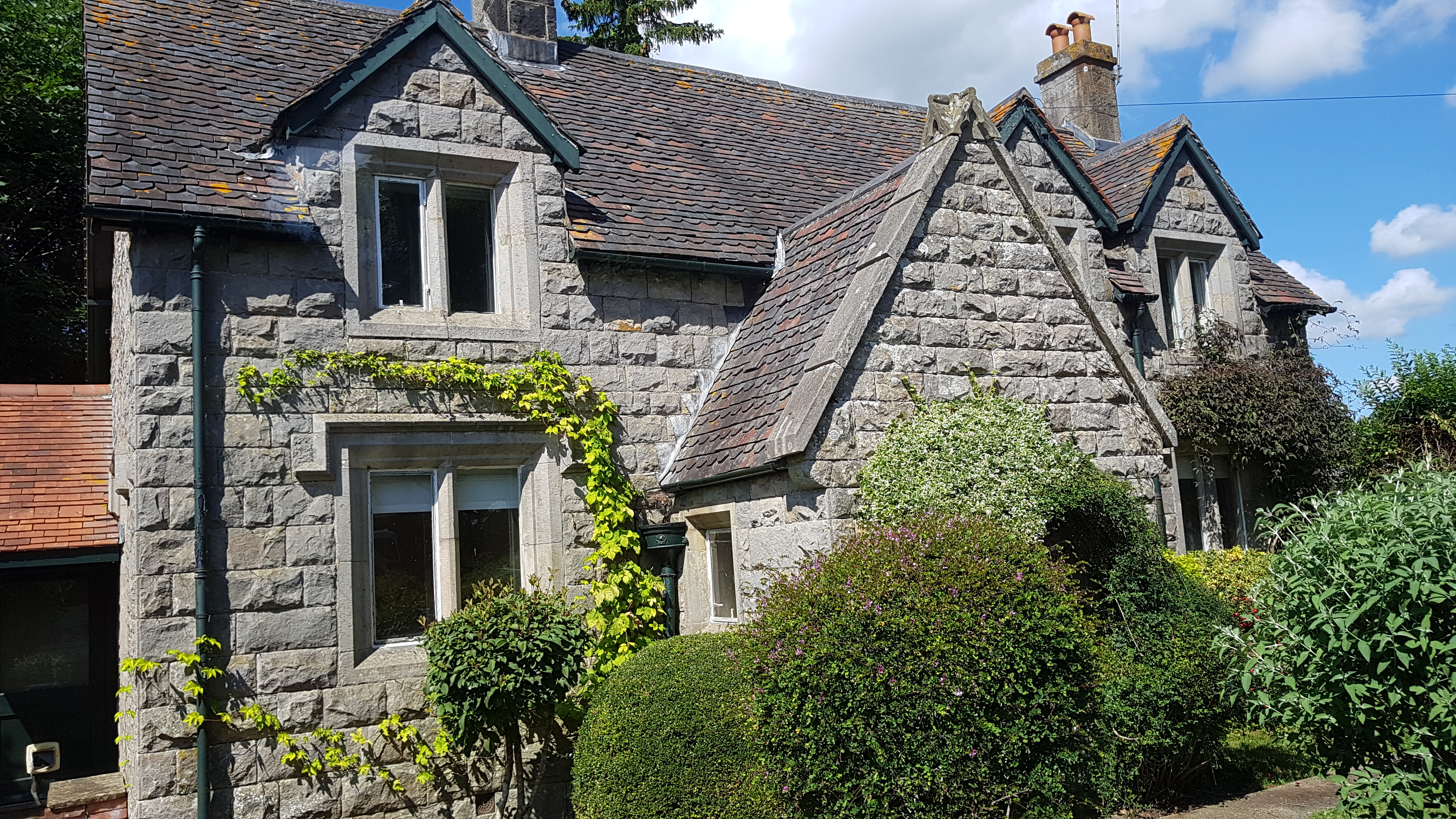 J.K. Rowling House